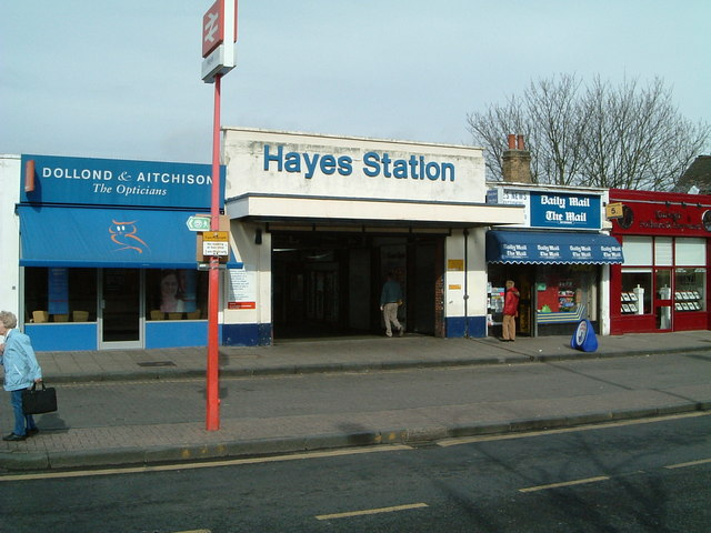 Hayes (Kent) Station